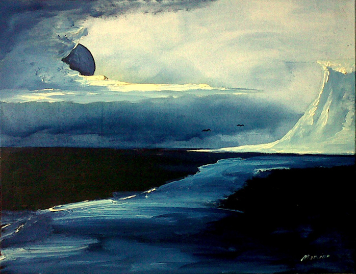 "Blue bay" by Jack Mancino oli on canvas early works